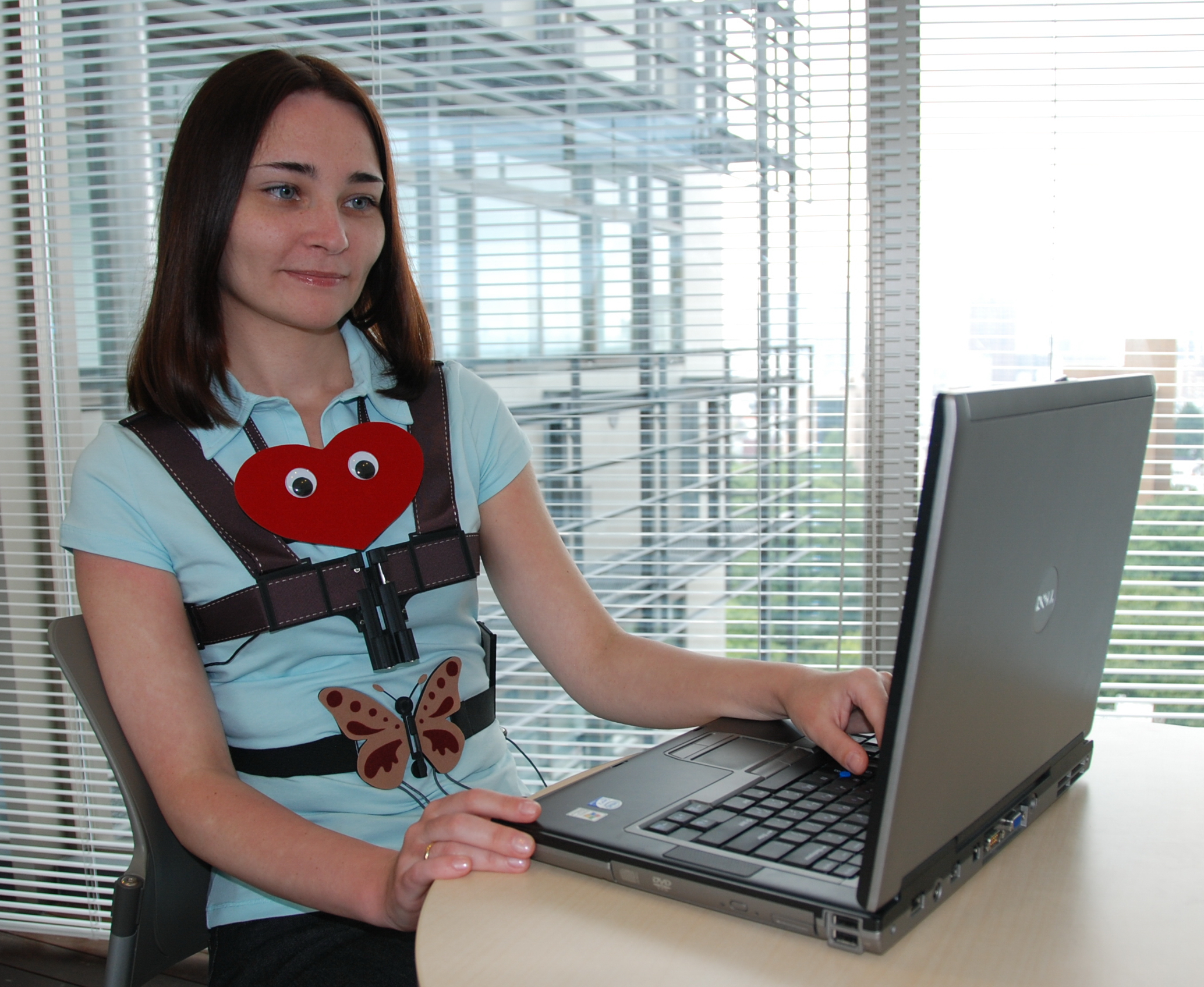 Photo of the user with Affective Haptic Devices